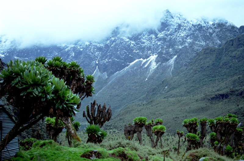 Dendrosenecio adnivalis — flora in the Rwenzori Mountains range. Rwenzori Mountains National Park, western Uganda.